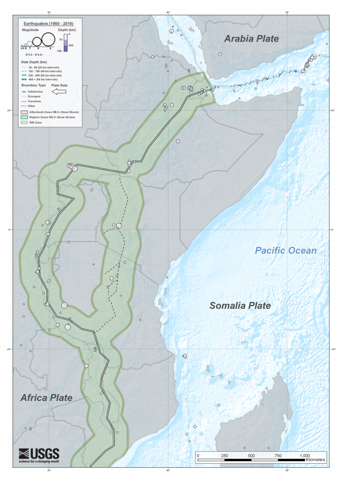 Earthquakes M5.5+ (1900-2016) east africa Circle sizes indicate Magnitude, and colors indicate their depth.